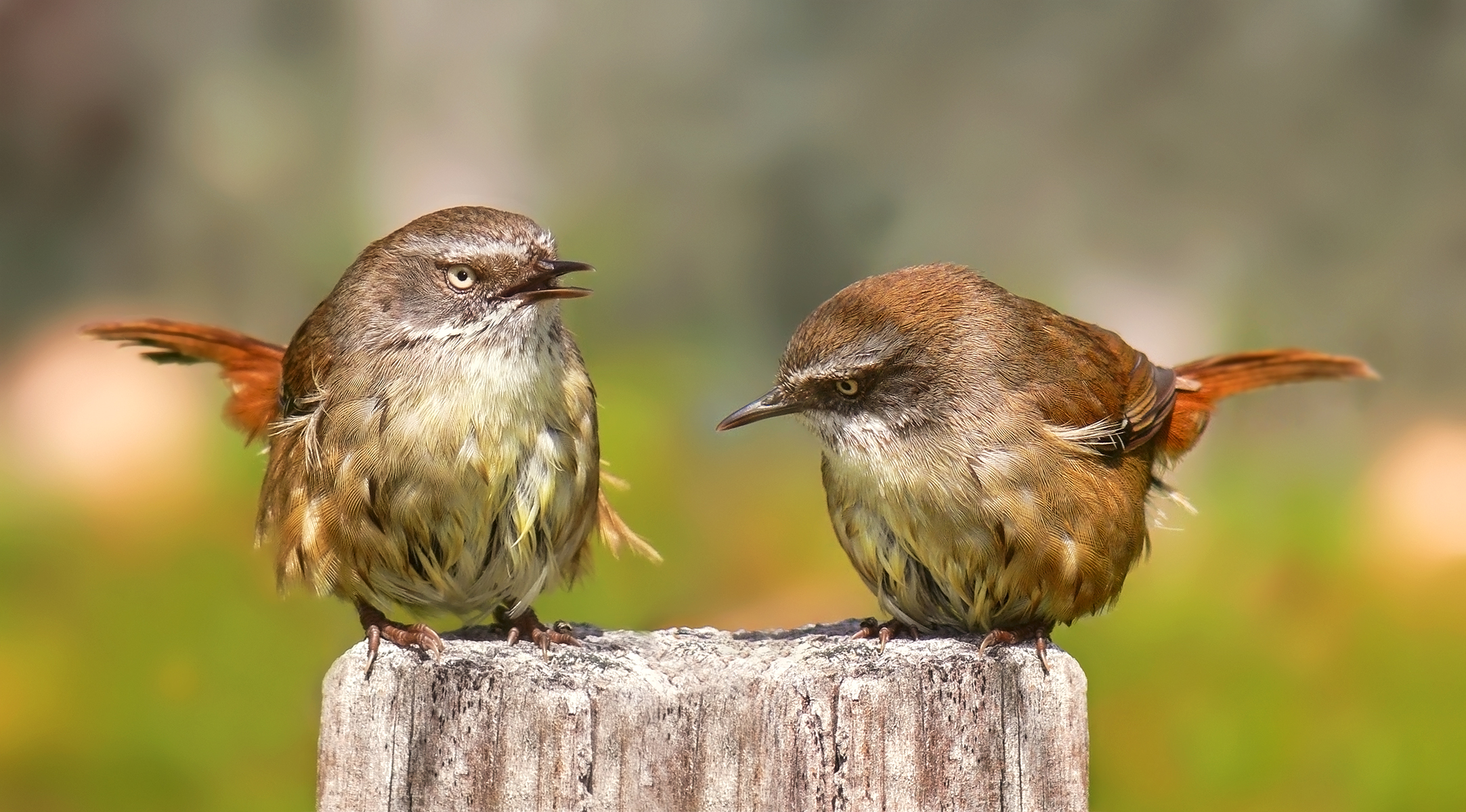 A White-browed Scrubwren female (Sericornis frontalis) vocalising, taken in South-eastern Australia. (photomontage)